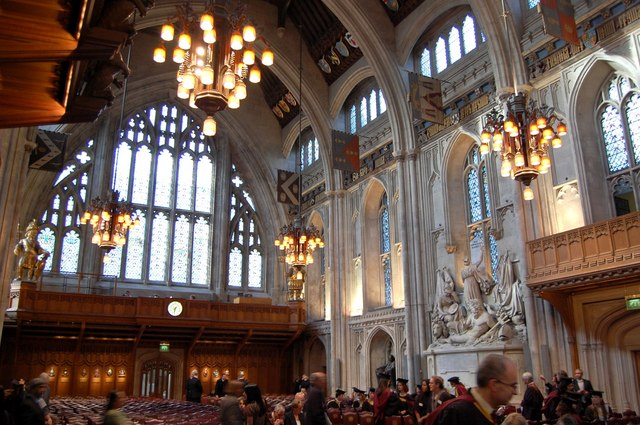 Guildhall, City of London Taken inside the Guildhall on graduation day. Guildhall is used by City University for its graduation ceremonies - on this occasion Speech and Language Therapists.